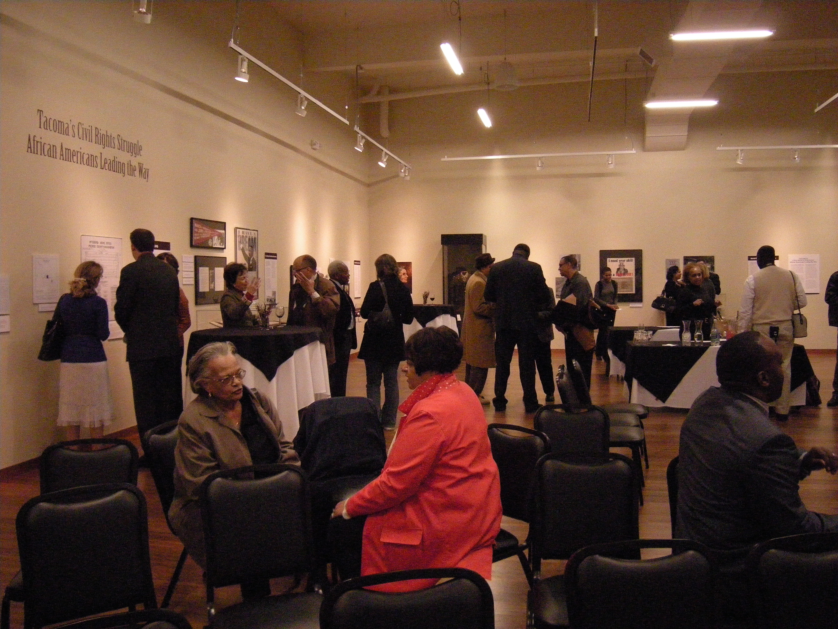 Opening of Tacoma's Civil Rights Struggle exhibit, Northwest African American Museum, Seattle, Washington, USA.